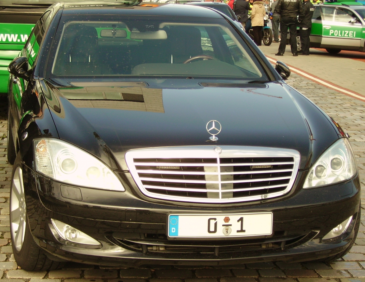 The limousine of the President of Germany which can be distinguished from other cars by the vehicle registration plate "0-1"